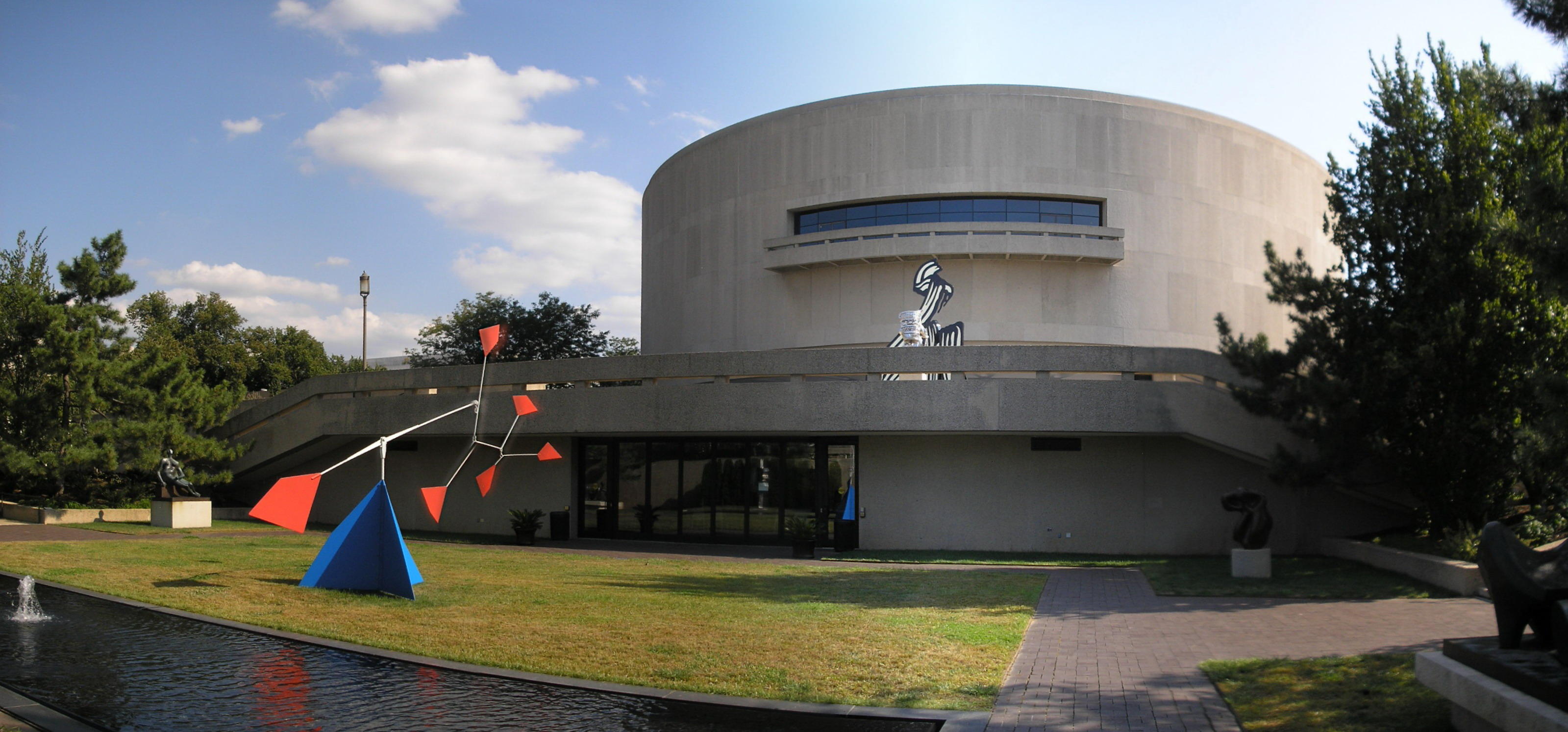 View of the sculpture garden at the Hirshhorn Museum in Washington, D.C..